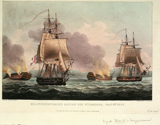 HMS Magicienne and HMS Acasta and the Battle of San Domingo